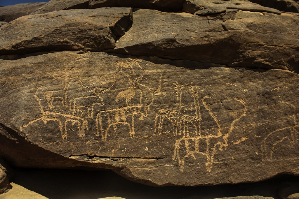 Sabu-Jaddi Rock Art site: Cattle with distorted corbels